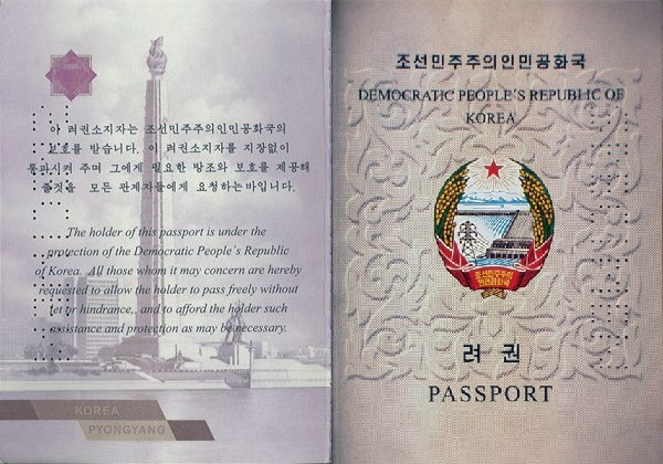 Info Page of the DPRK Passport